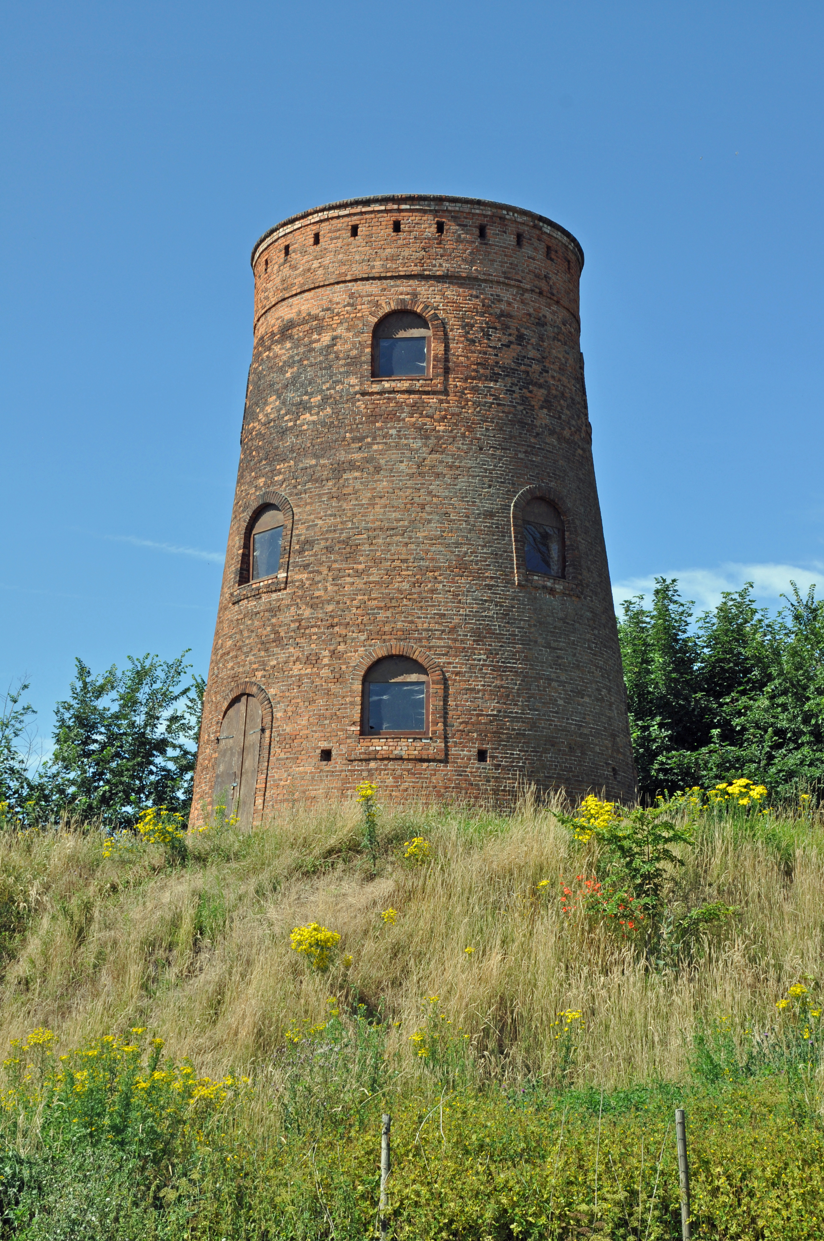 Koolkerke (Bruges, Belgium): old windmill Ter Panne